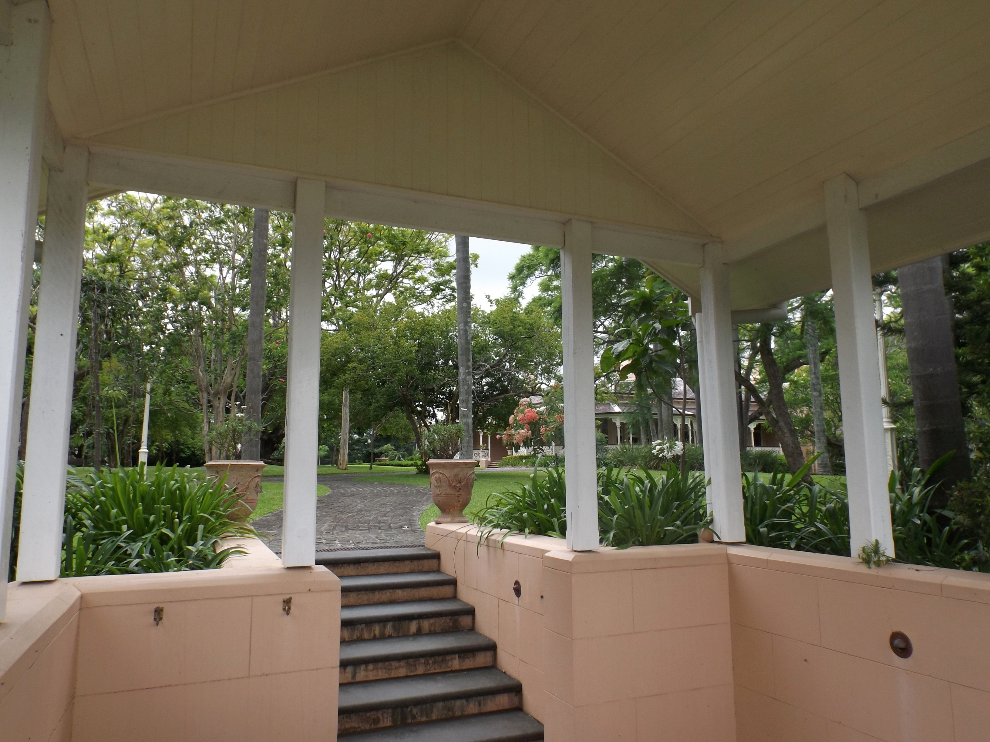 Photo of pedestrian entrance to Eulalia at Norman Park, Brisbane, Queensland, Australia.